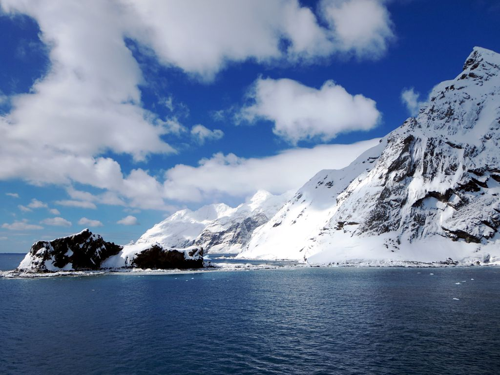 In 1916 22 members of the ill-fated Endurance expedition sheltered for four and a half months on Point Wild, a tiny spit on the north coast of Elephant Island, before being rescued.